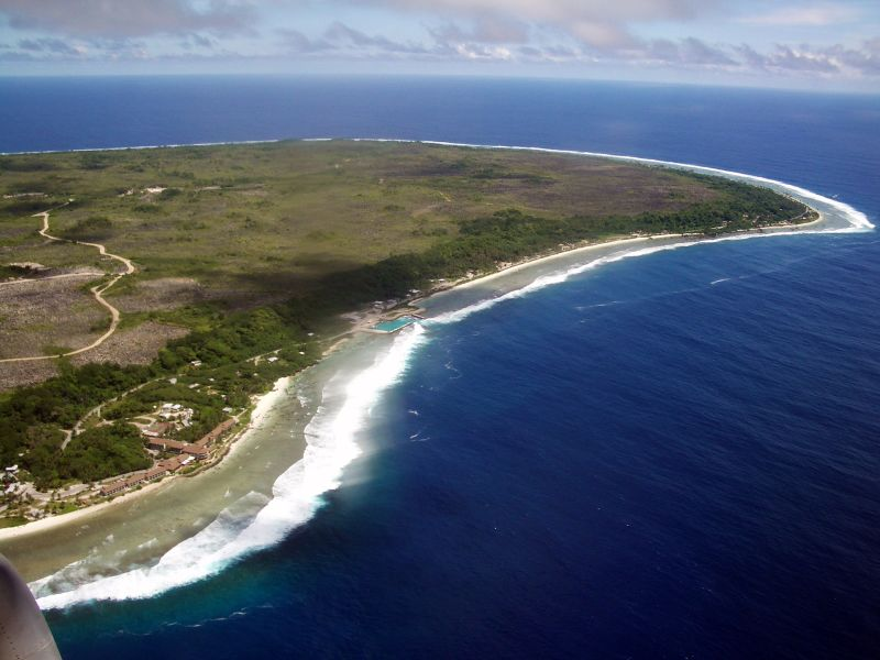 Aerial photo showing the east side of the island of Nauru, on the shore wee can see the Menen Hotel and the Anibare port